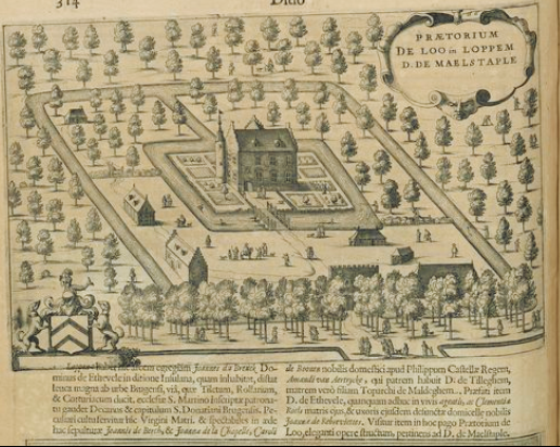 Represents the Old castle of "Ter Loo" in the municipality Loppem in Belgium.